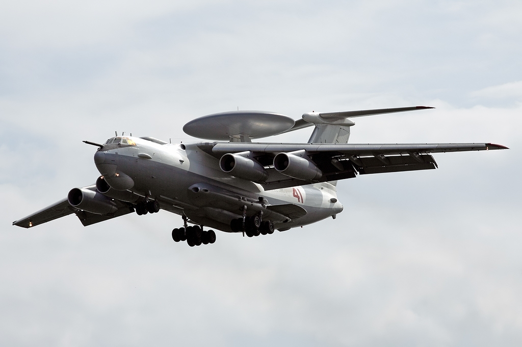 Beriev A-50 on August 13th, 2011.